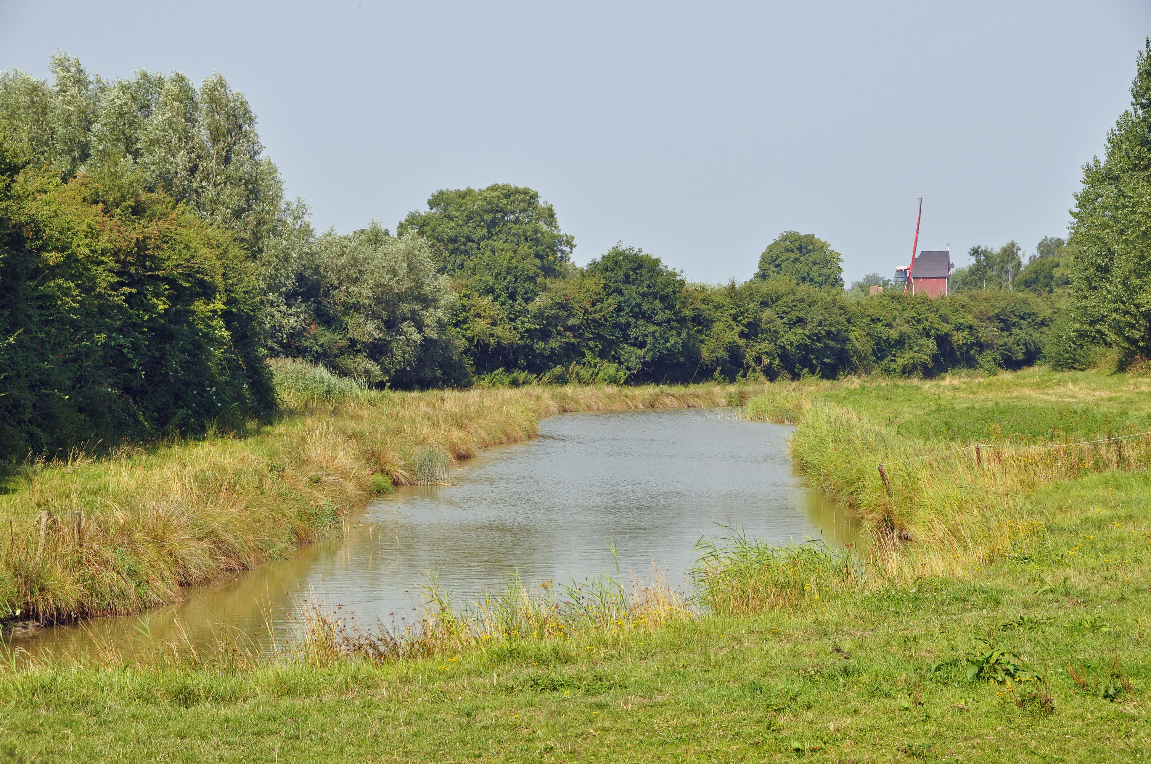 Retranchement (municipality of Sluis, the Netherlands): the ramparts